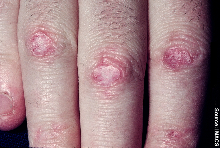 Dermatomyositis, Gottron's papules with telangiectasia. Gottron's papules with prominent atrophy, porcelain white scarring, and telangiectasia.